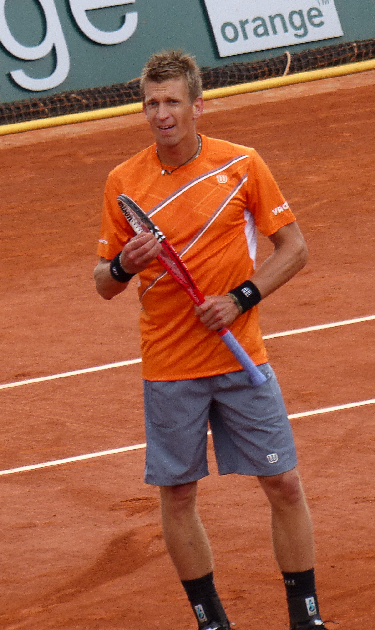 2ème tour Roland Garros 2013 : Jo-Wilfried Tsonga (FRA) def. Jarkko Nieminen (FIN)